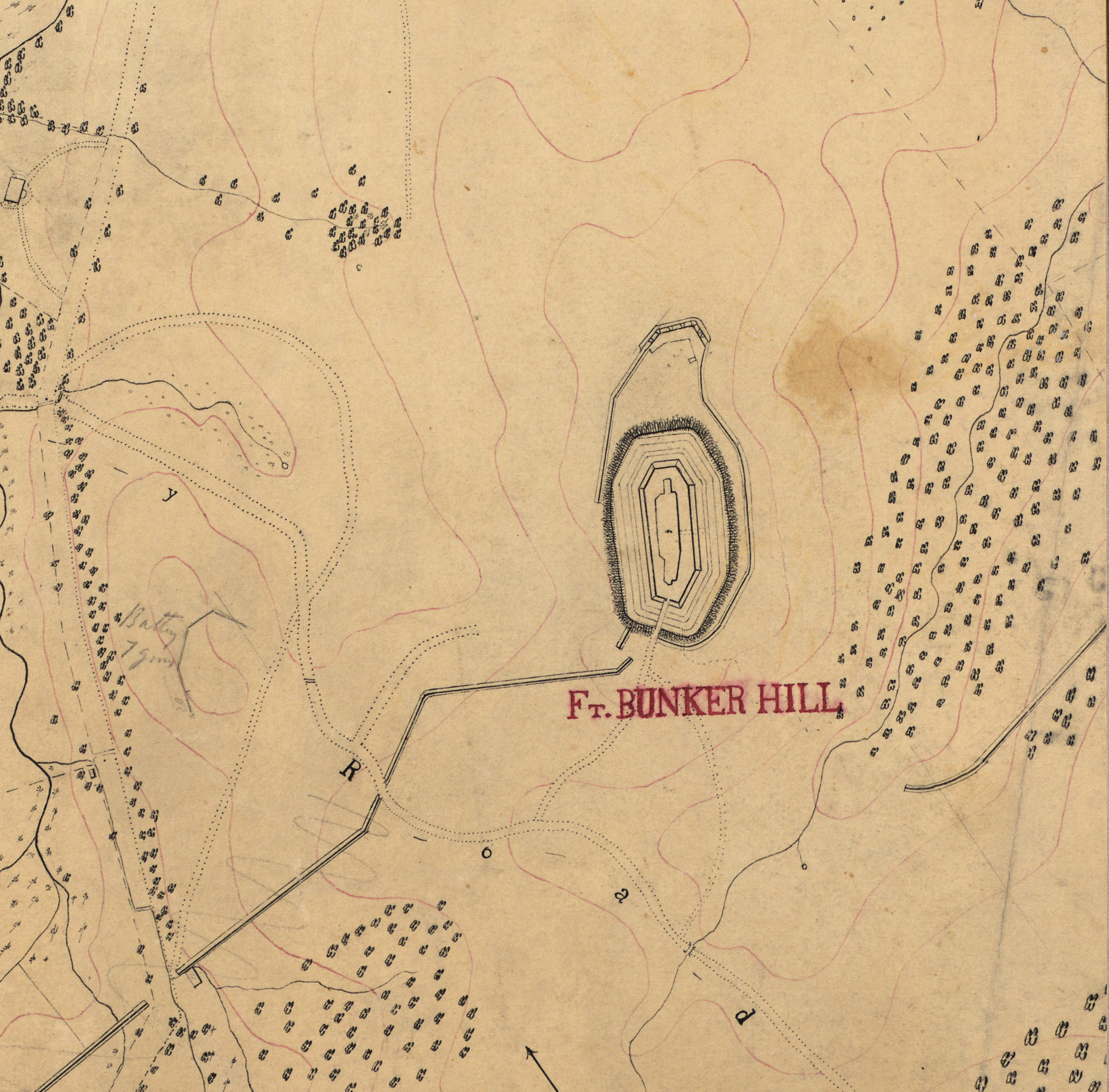 Detail from Topographical map, 1st Brigade, defenses north of Potomac, Washington, D.C. (East)